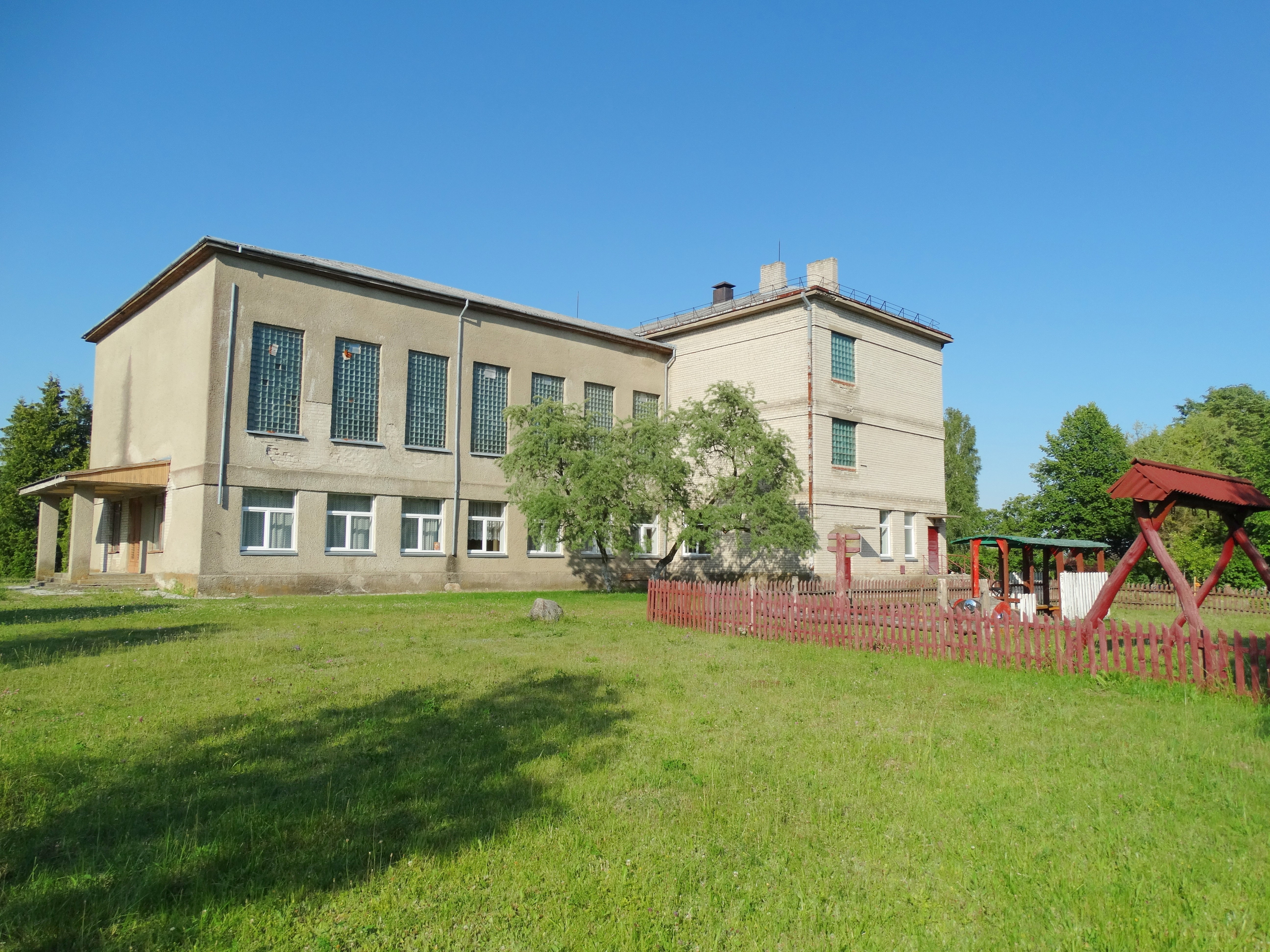 „Minija“ Secondary School, Žarėnai, Telšiai District,, Lithuania